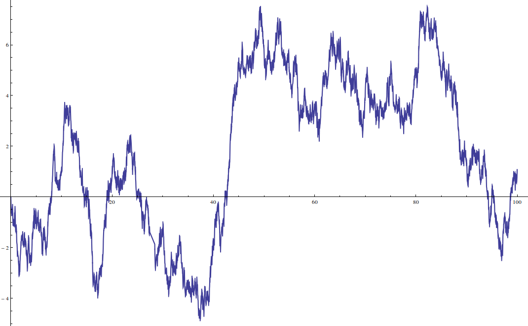 A one-dimensional Wiener process simulated in mathematica using the Levy scaling law.